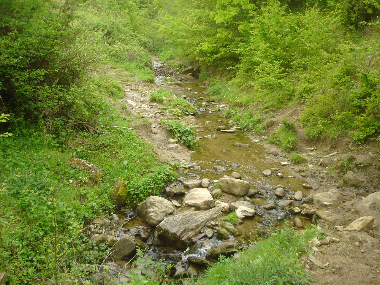 Stream in Cvetovo, Macedonia